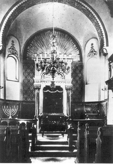 The interior of the synagogue of Winnweiler (Germany) built in 1901. The synagogue was destroyed by the nazis during Kristal Nacht in 1938.